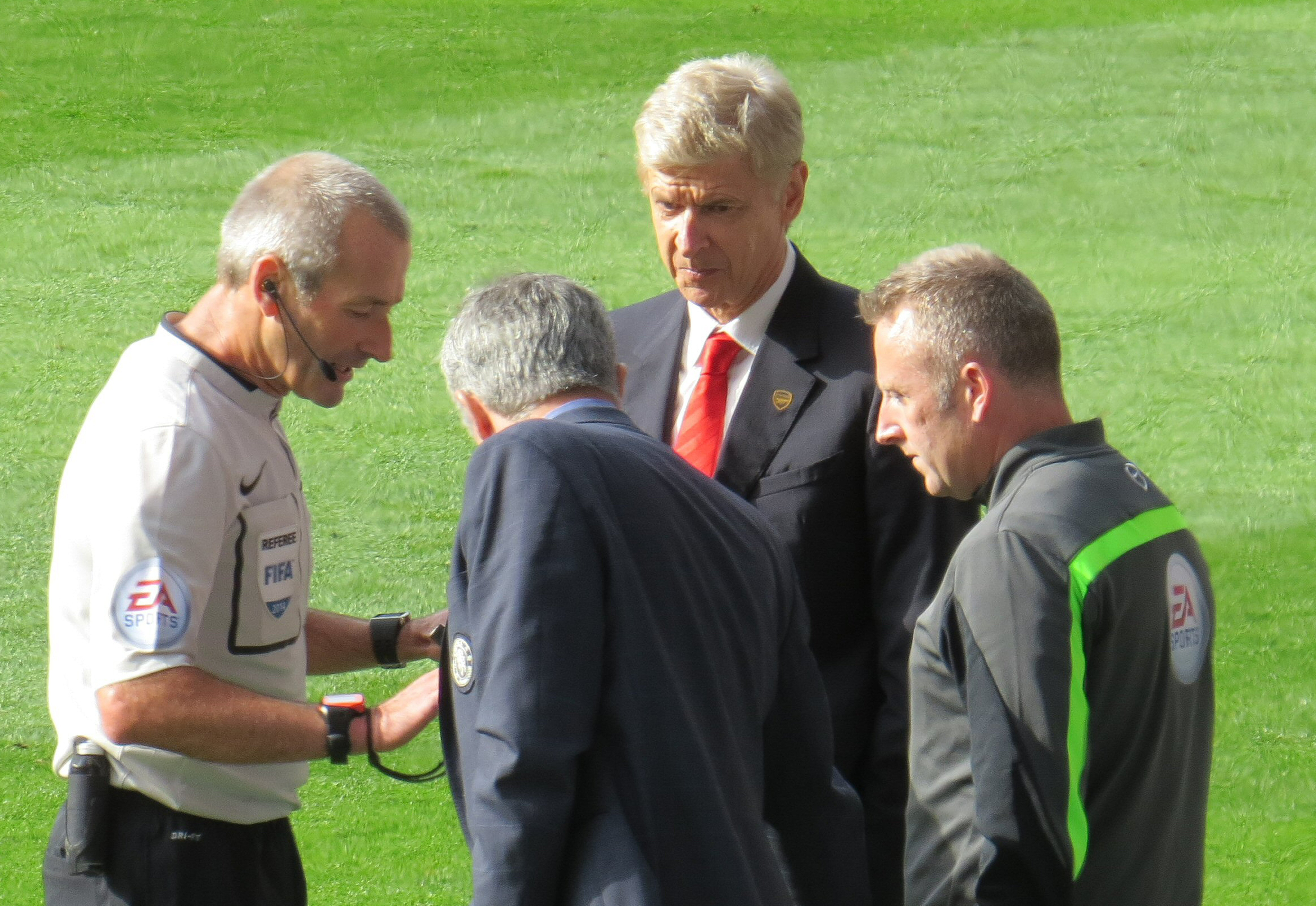 Arsenal manager Arsene Wenger glares at Chelsea's Jose Mourihno during one their many spats.October 2014